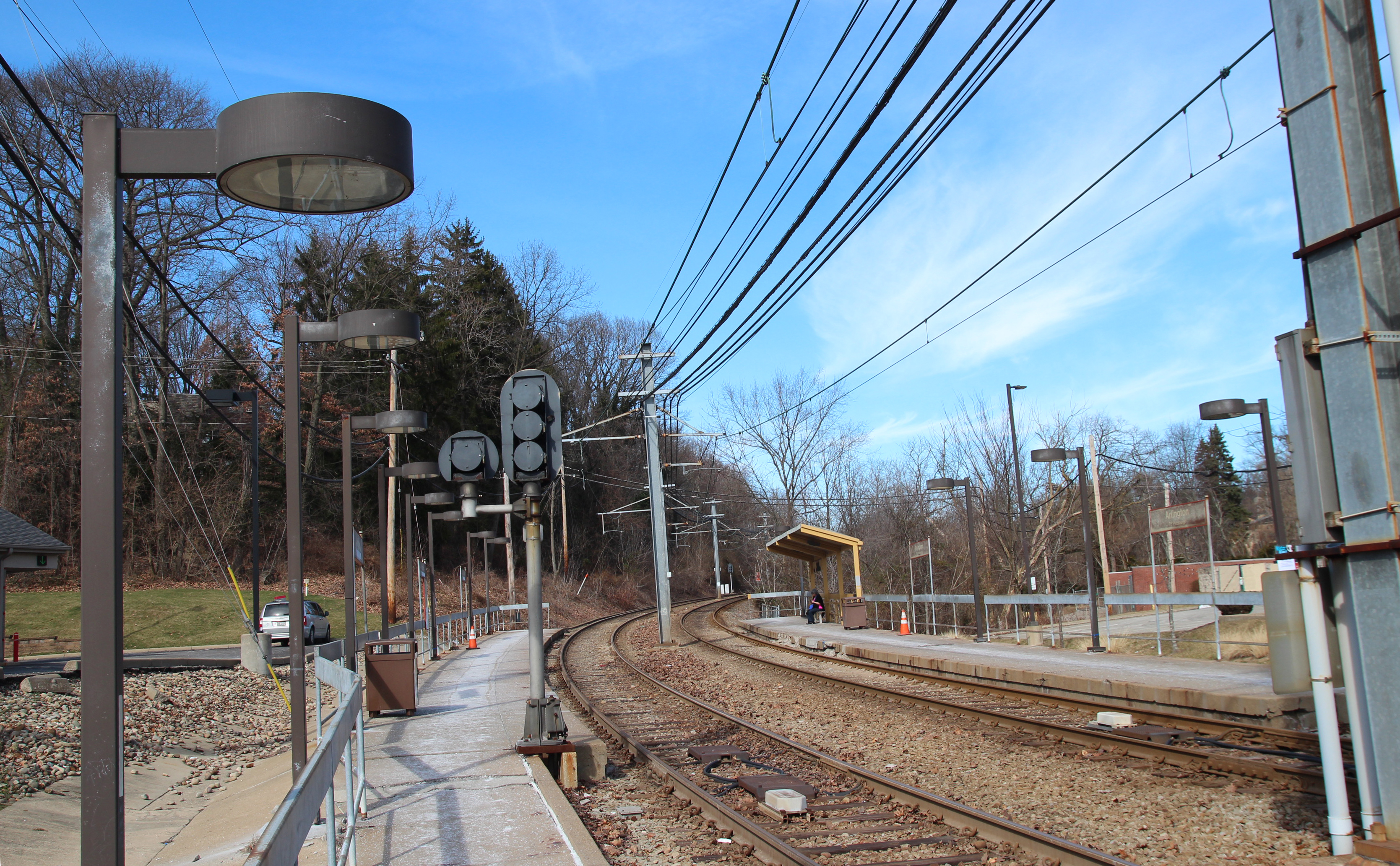 Looking north (inbound) from the outbound platform at Arlington station on the Red Line